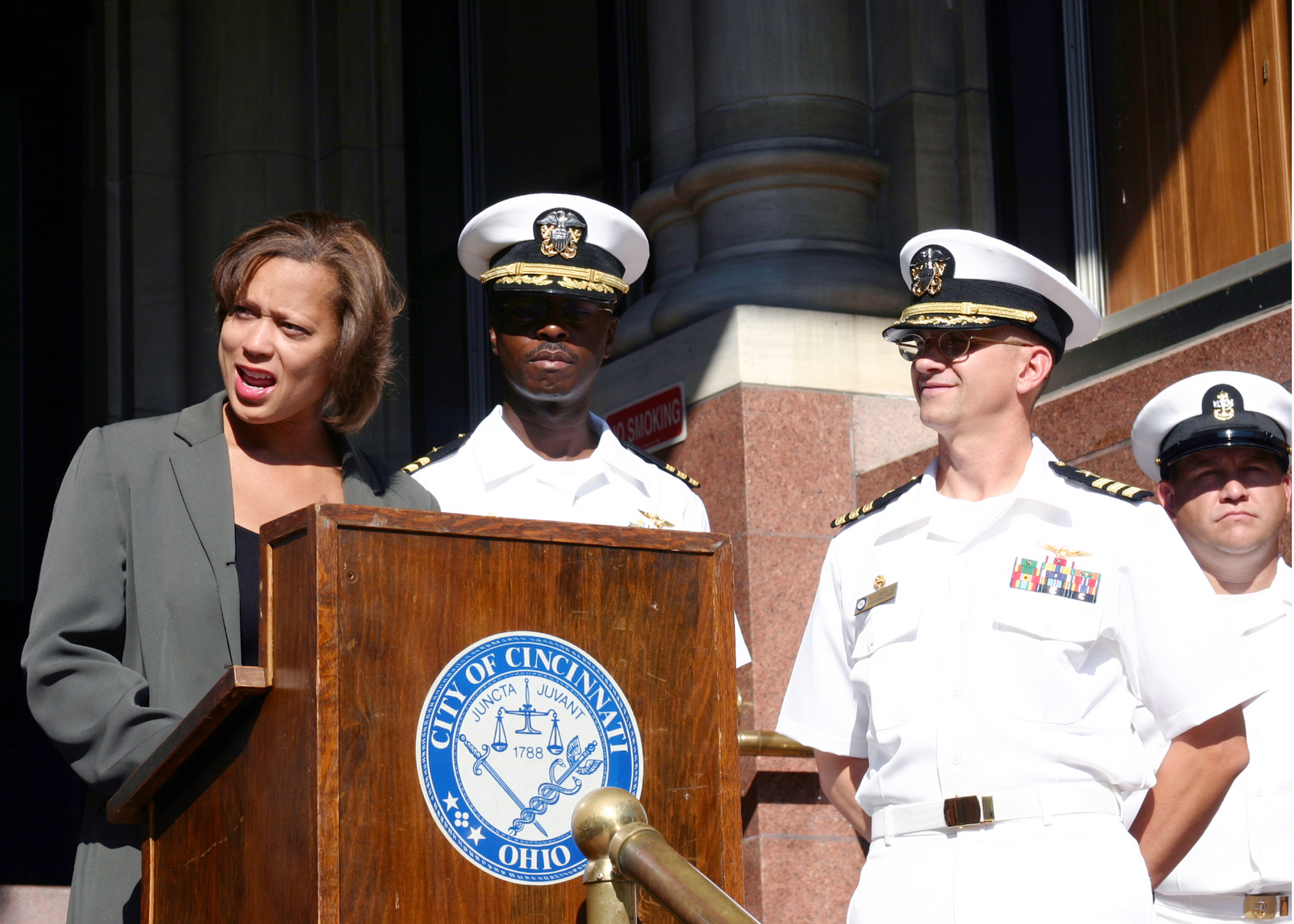 CINCINNATI, Ohio (Aug. 27, 2007) - During a ceremony at City Hall, City Councilmember Laketa Cole announces Aug. 27 to Sept. 3 to be Cincinnati Navy Week as proclaimed by Mayor Mark Mallory. Joining Cole is Cmdr. Will Nelson, commanding officer of Navy Recruiting District Ohio; Cmdr. Pete Greenwald, commanding officer Navy Operational Support Center (NOSC) Cincinnati; and NOSC Cincinnati Command Senior Chief Brian Cornwell. U.S. Navy photo by Mass Communication Specialist 1st Class Michael Sheehan (RELEASED)